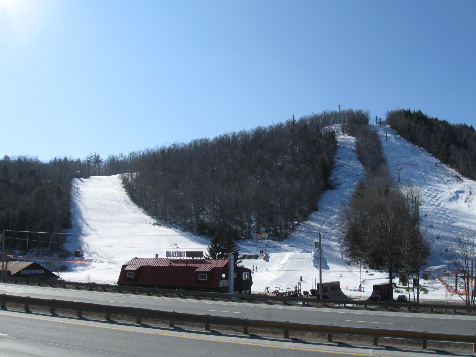 Whaleback near Lebanon